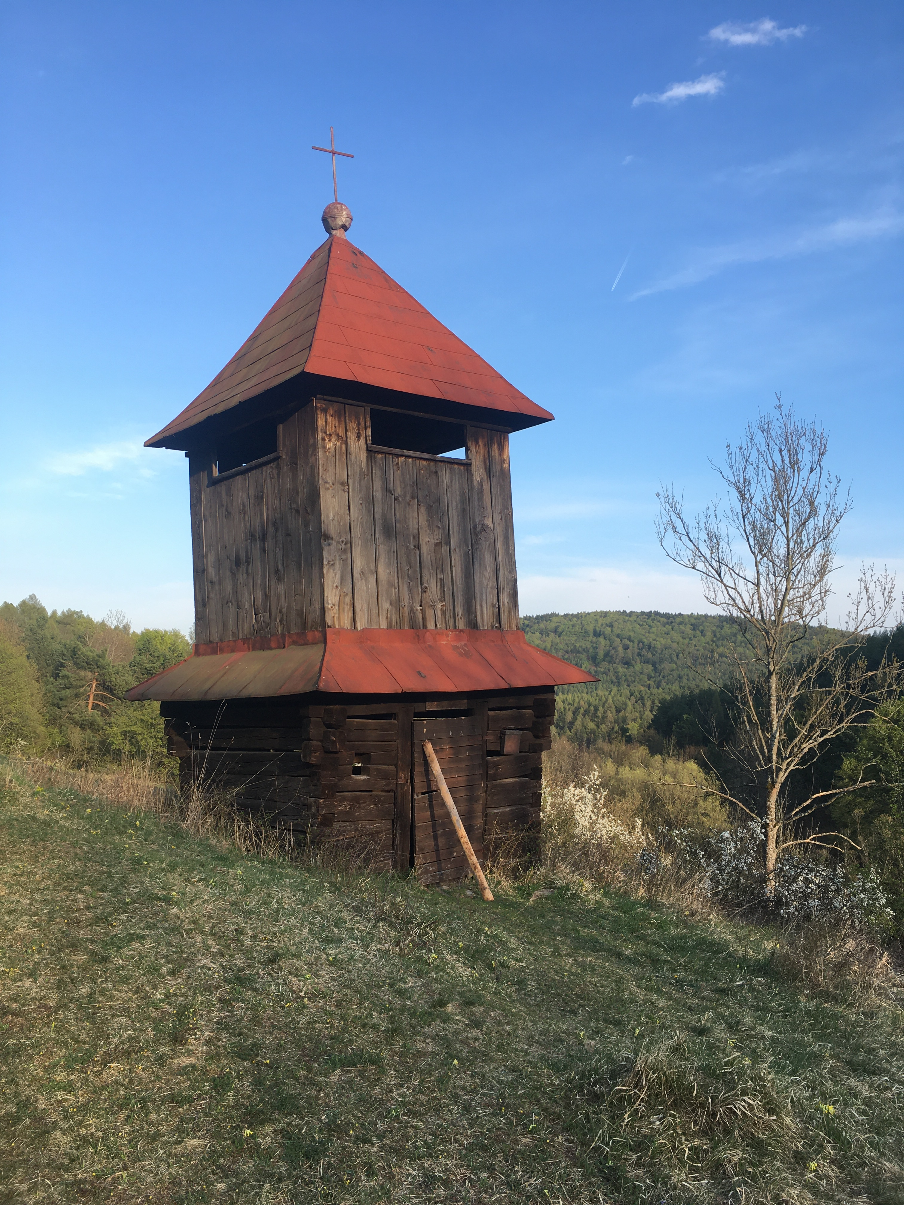 Bellfry in abandoned village of Hadviga, Brieštie, Slovakia